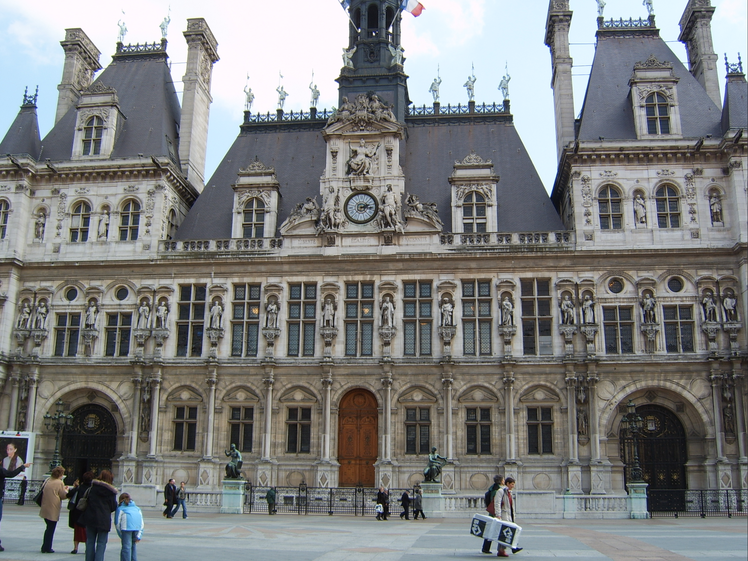 West facade and high-pitched hip roofs, Hôtel de Ville, Paris, France.